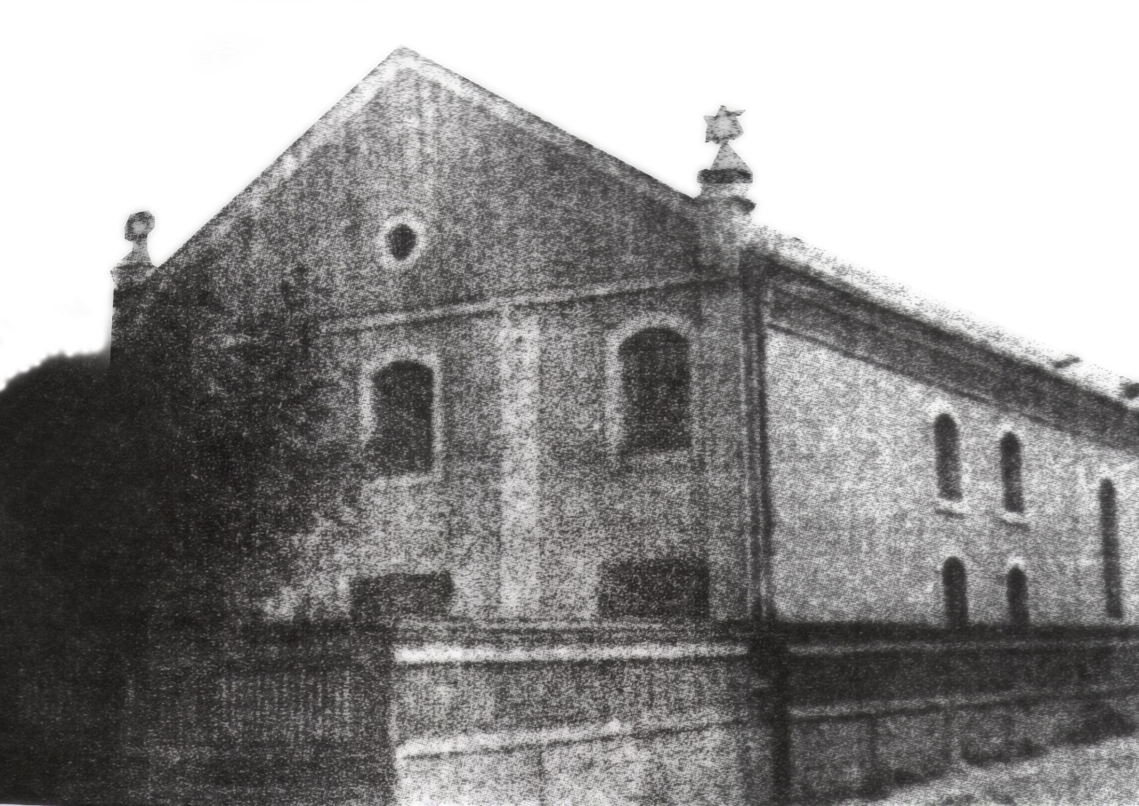 The synagogue of Hajdúdorog, Hungary. The synagogue was built around 1848 on the corner of the Dohány and Jaczkovics streets, and demolished after the second World War. Right now it is a private property.